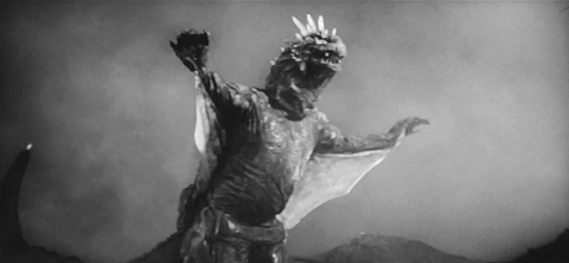 Scene from Daikaiju Baran.